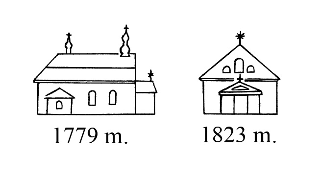 Church of Seredžius in 1779 and 1823, reconstruction.